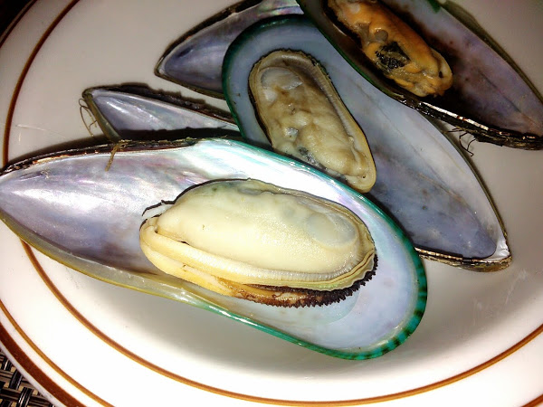 Food Photography 粵語: 嘢食攝影